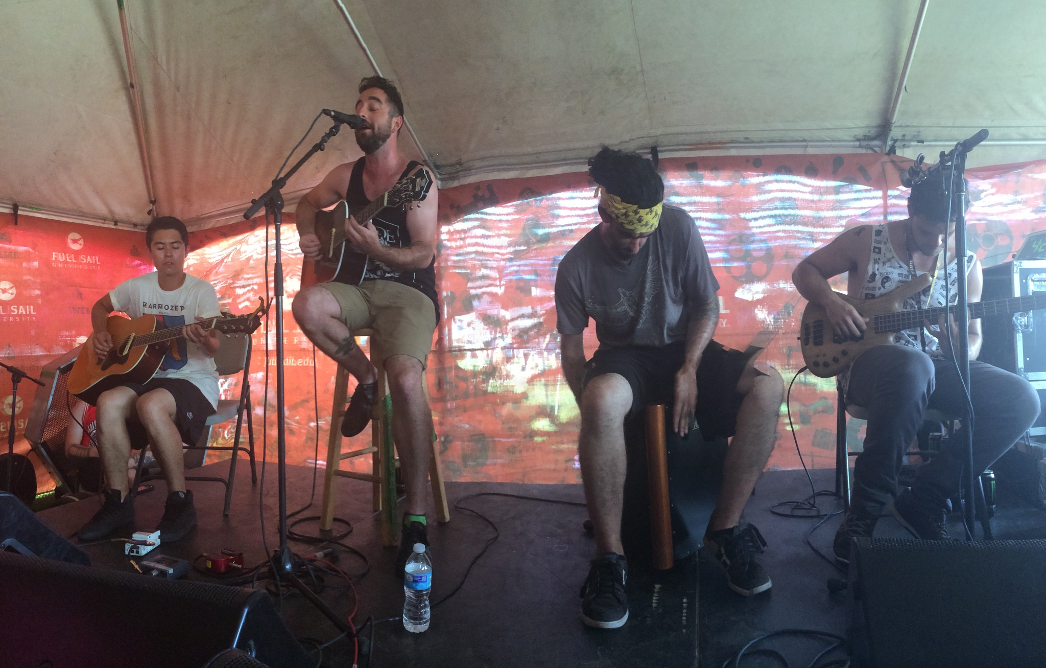 I the Mighty performing an acoustic set in Orlando, FL on Vans Warped Tour